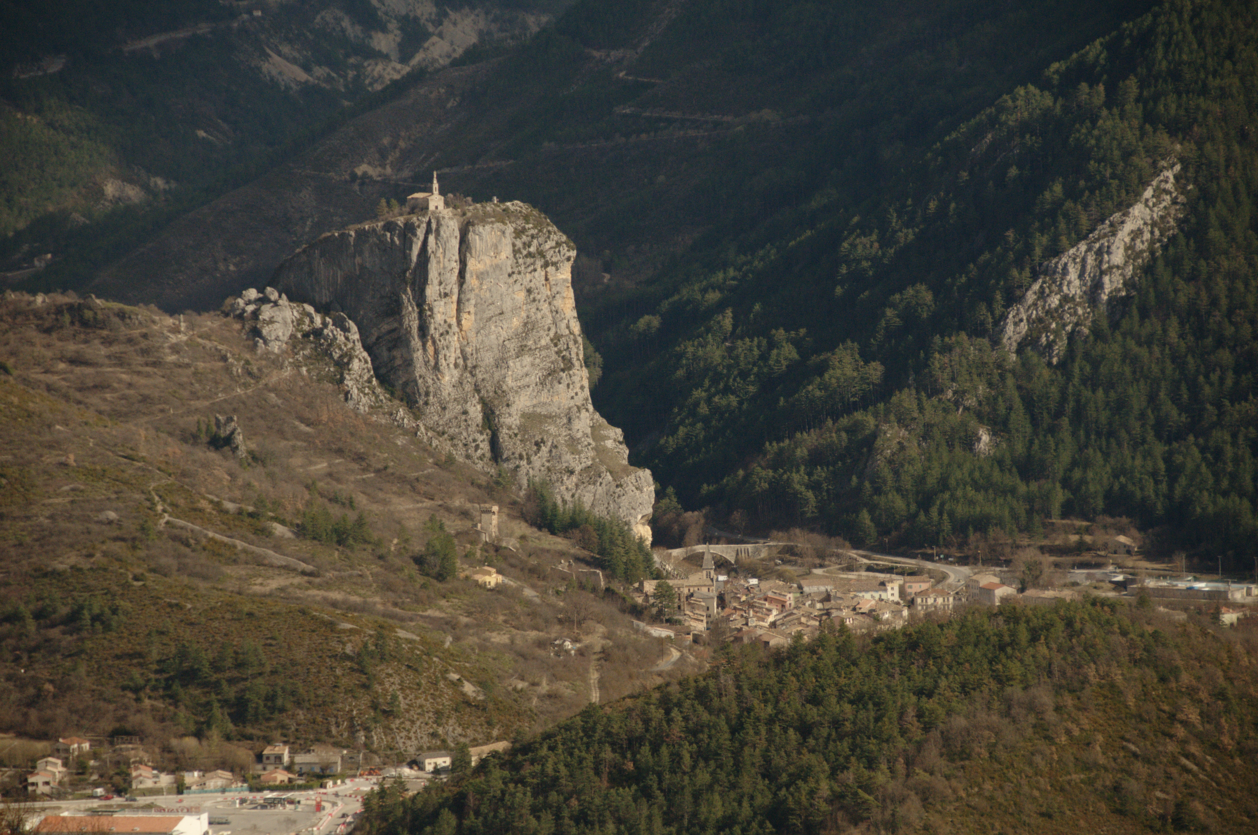 Castellane from far away